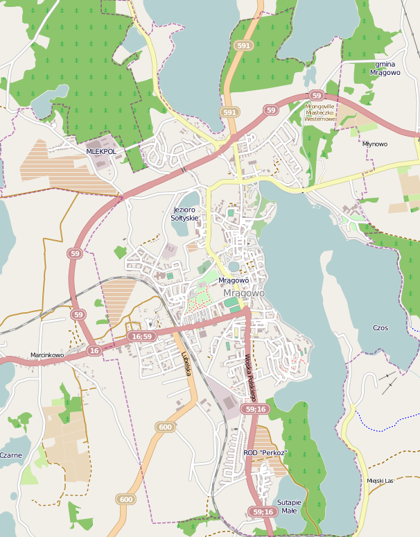 Location map of Mrągowo, Poland This map of Mrągowo was created from OpenStreetMap project data, collected by the community. This map may be incomplete, and may contain errors. Don't rely solely on it for navigation. Border coordinates53.89521.264←↕→21.33453.842